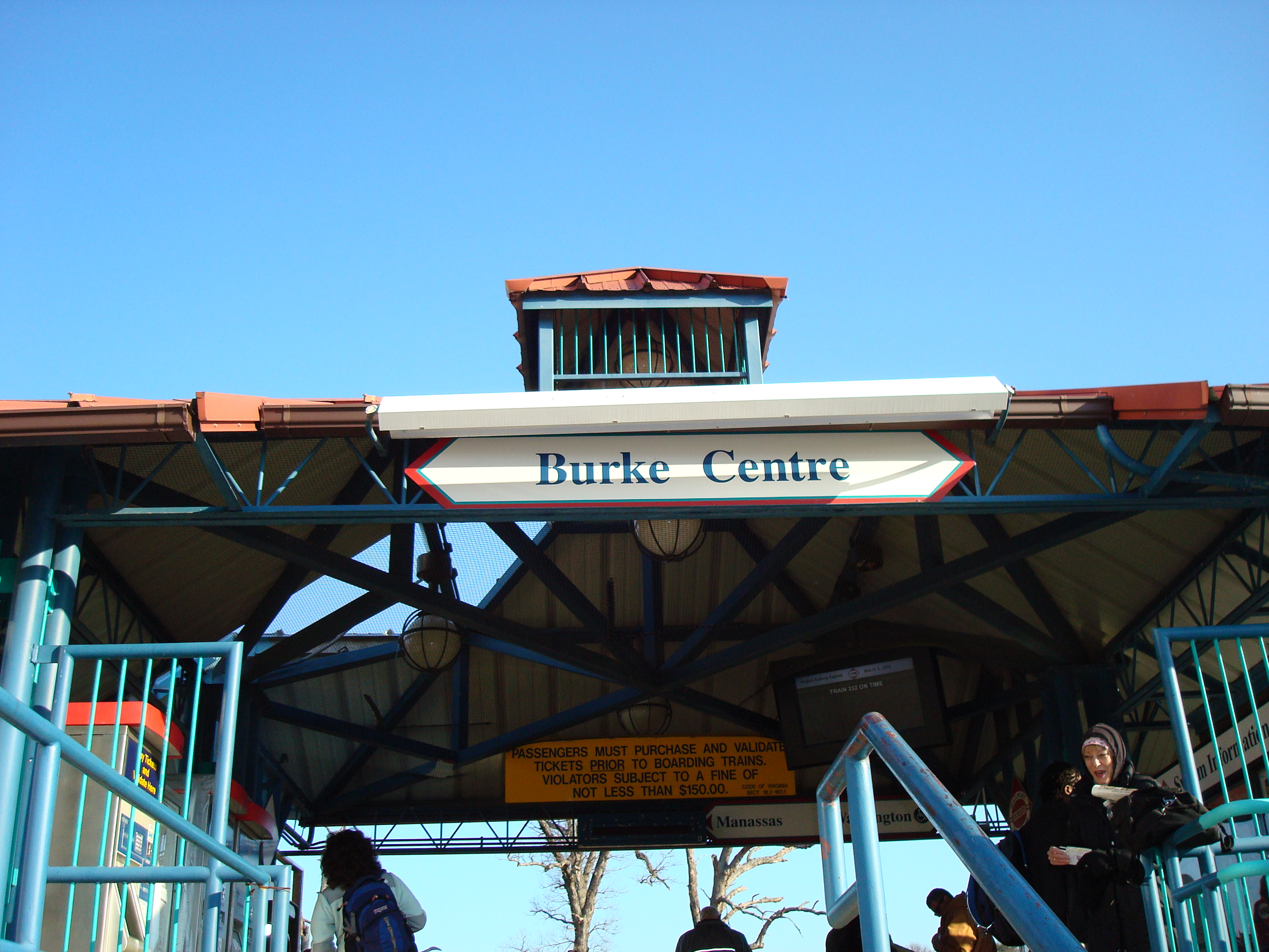 The station platform at Burke Centre, Virginia